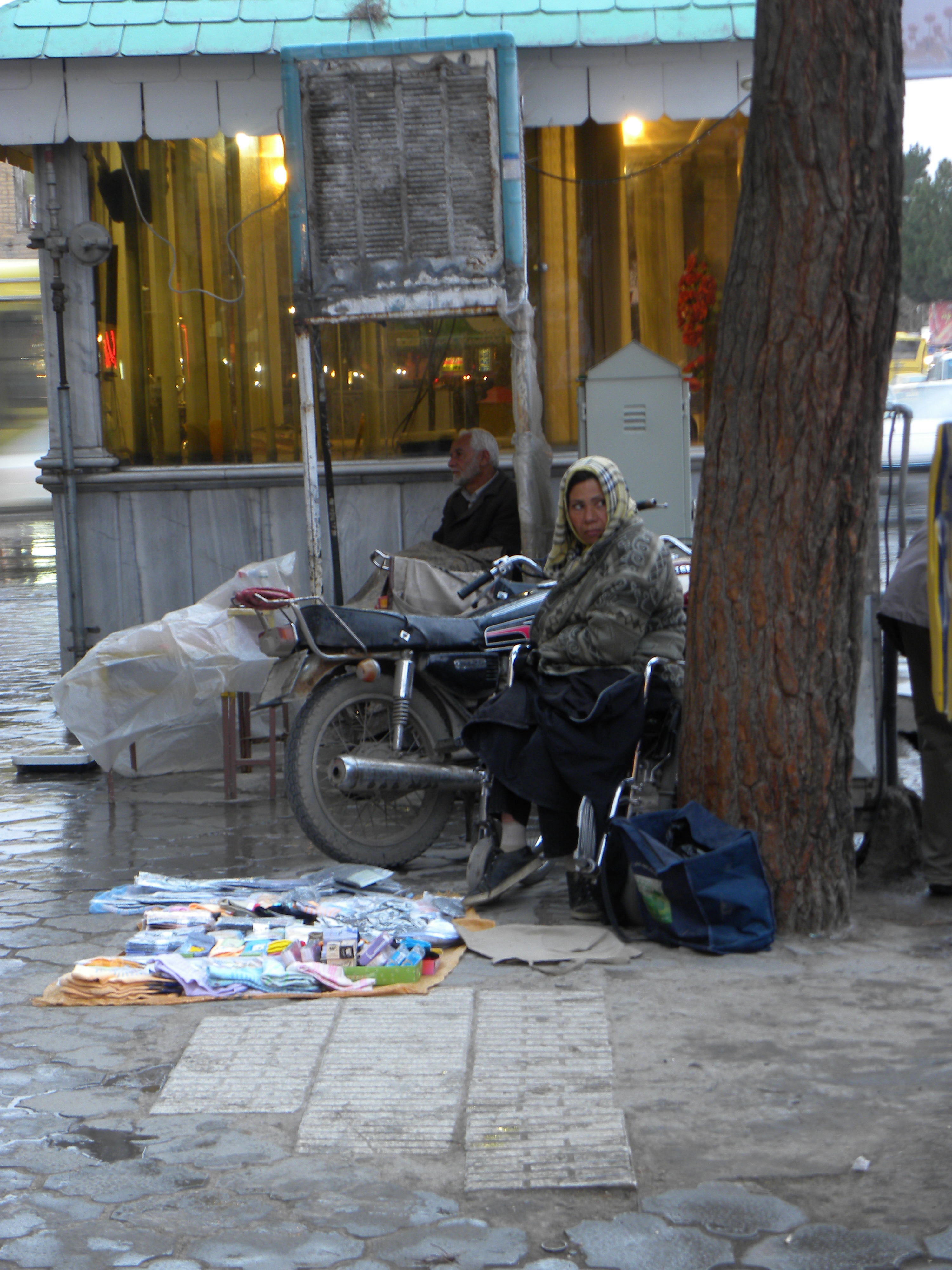 Rings Seller man in Nishapur